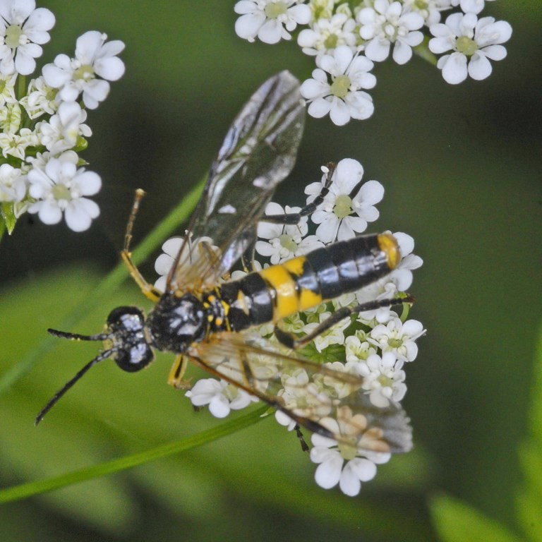 Male of "Tenthredo temula". Creto, Genova, Italy